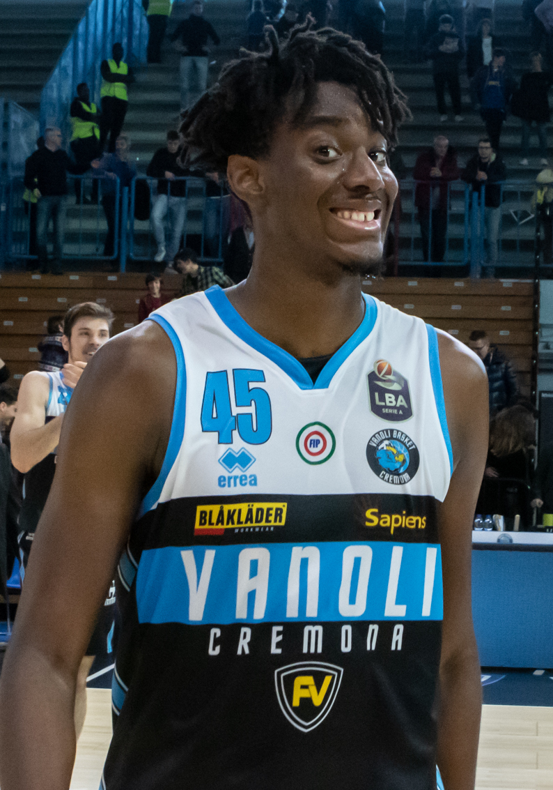 Nicola Akele della Vanoli Cremona